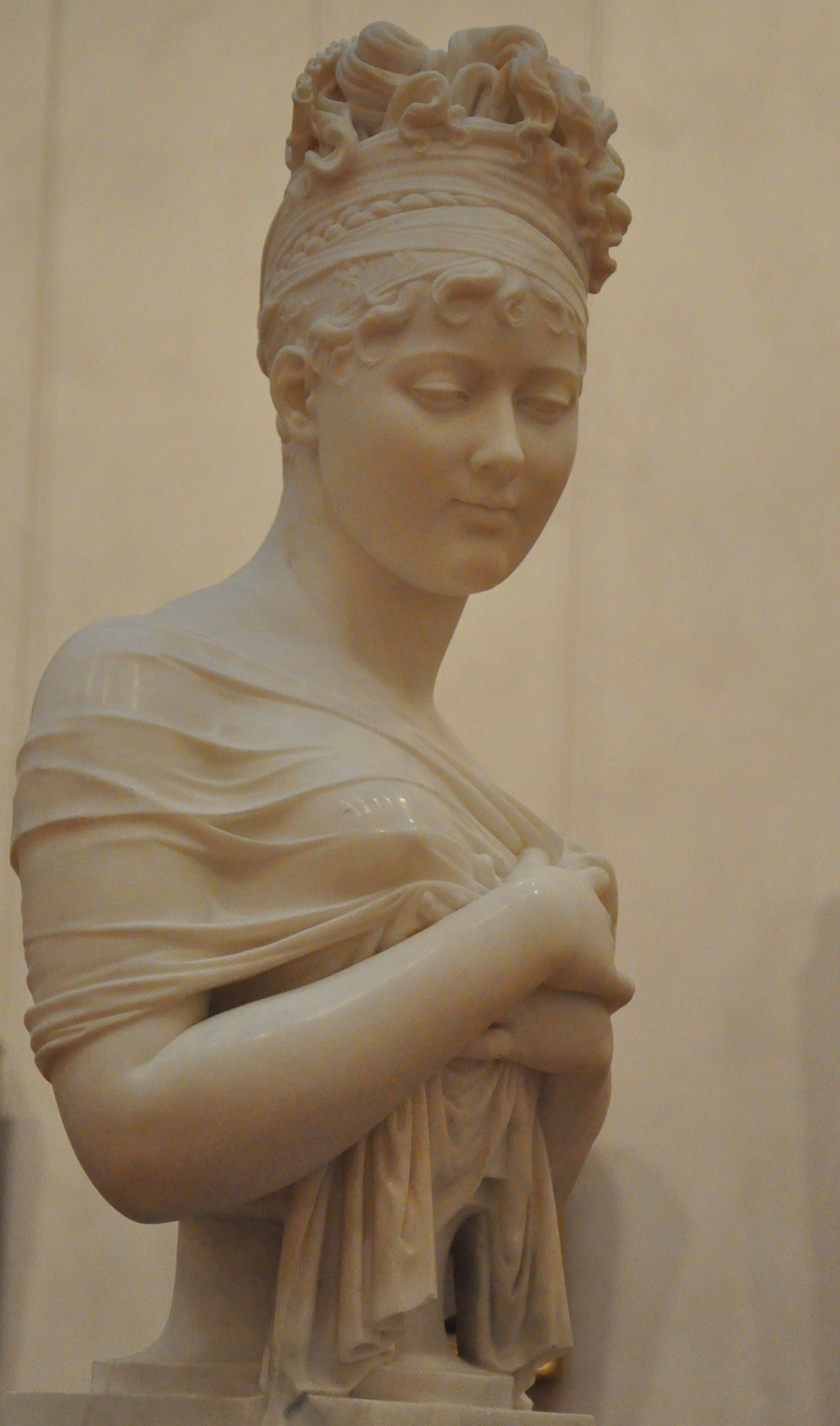 Bust of Juliette Récamier in "Musée des Beaux-arts" of Lyon (France)